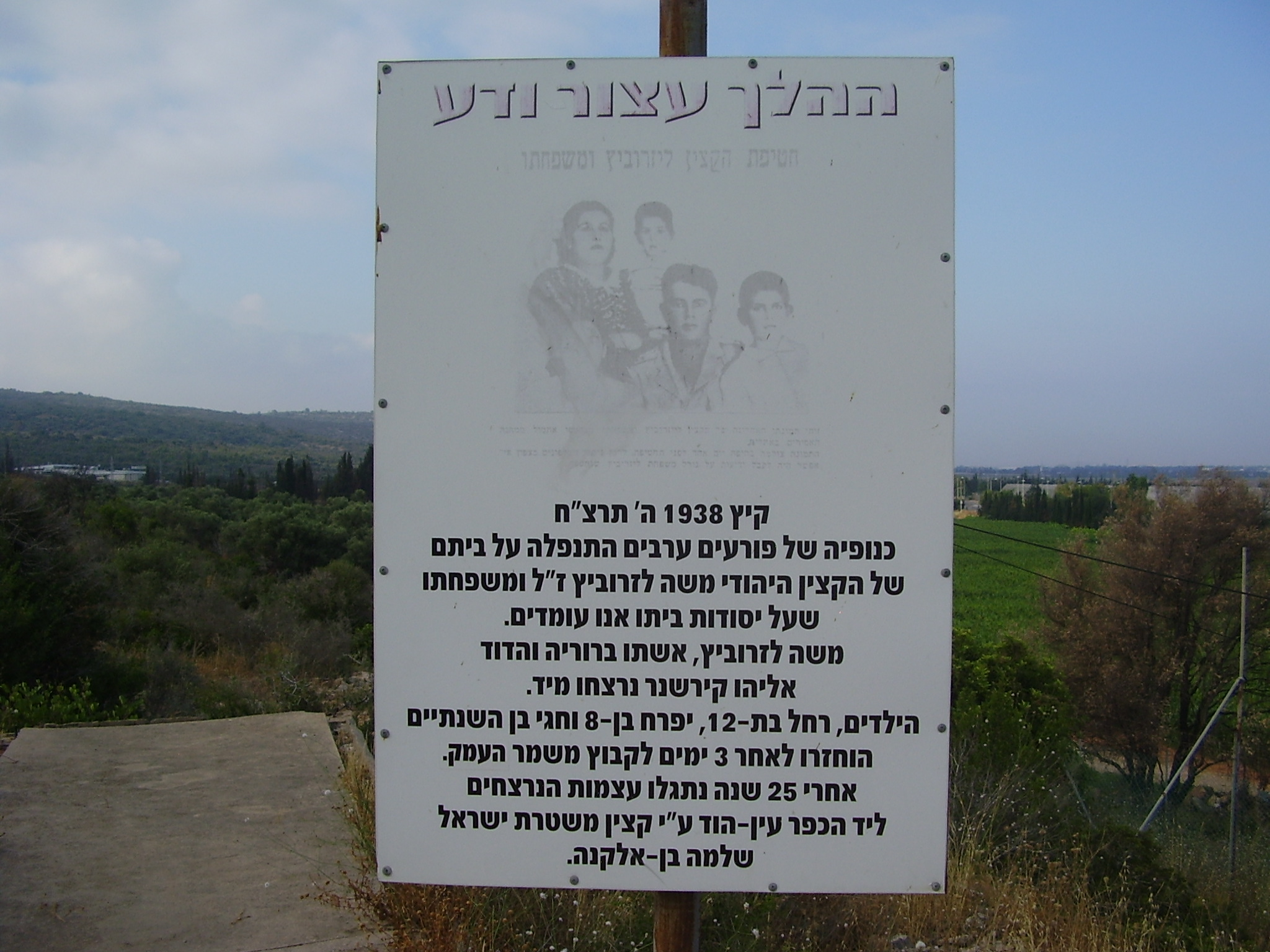 Atlit Detention Camp